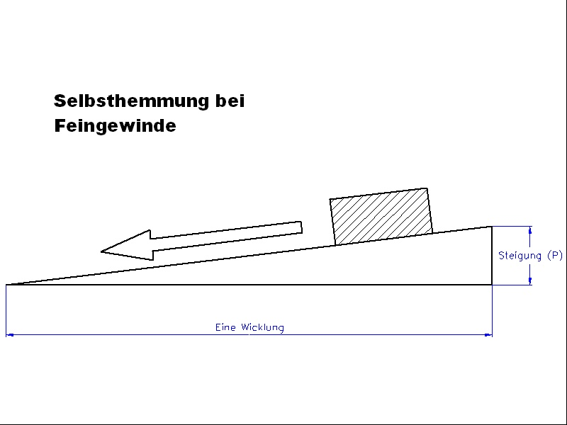 self-locking by thread